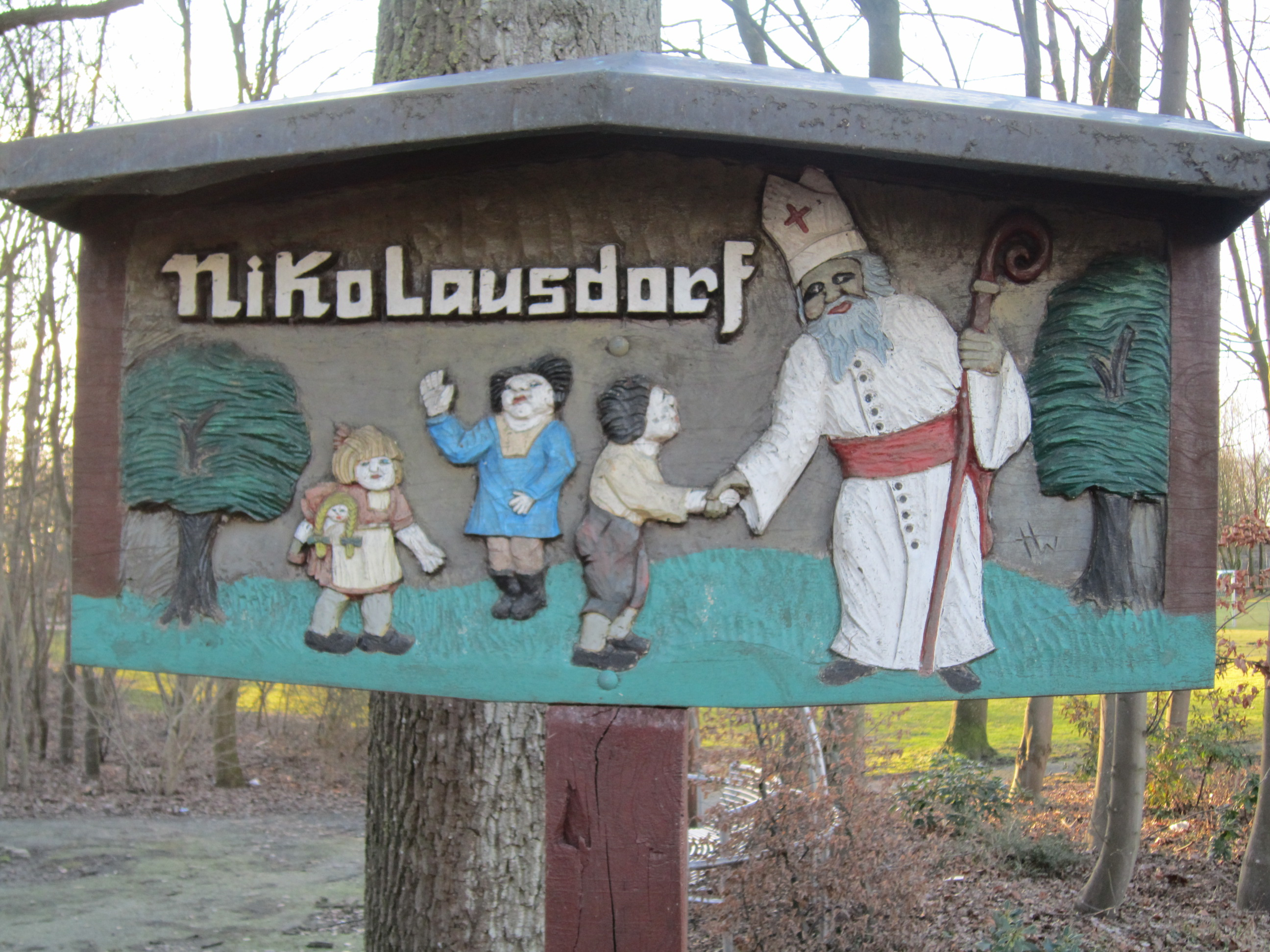 Notice at the entrance of Nikolausdorf (Cloppenburg county in Lower Saxony)